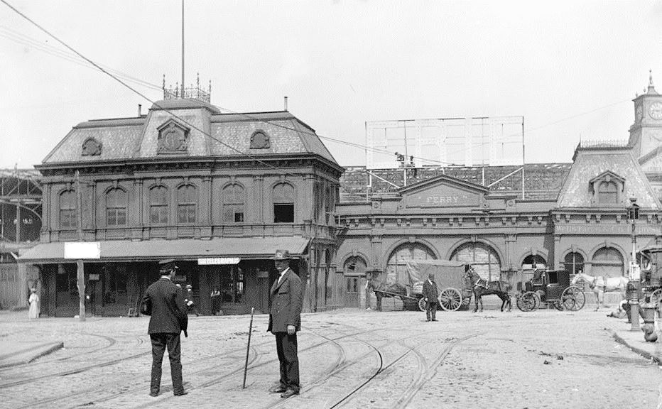 23rd Street Ferry Terminal, taken pre-1902 - Erie Railway, Twenty-third Street Ferry Terminal, Twenty-third Street, New York, New York County, NY